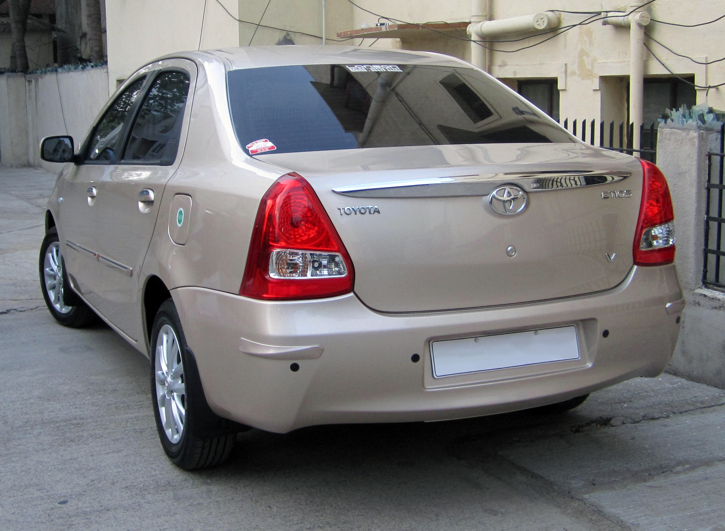 Our first car